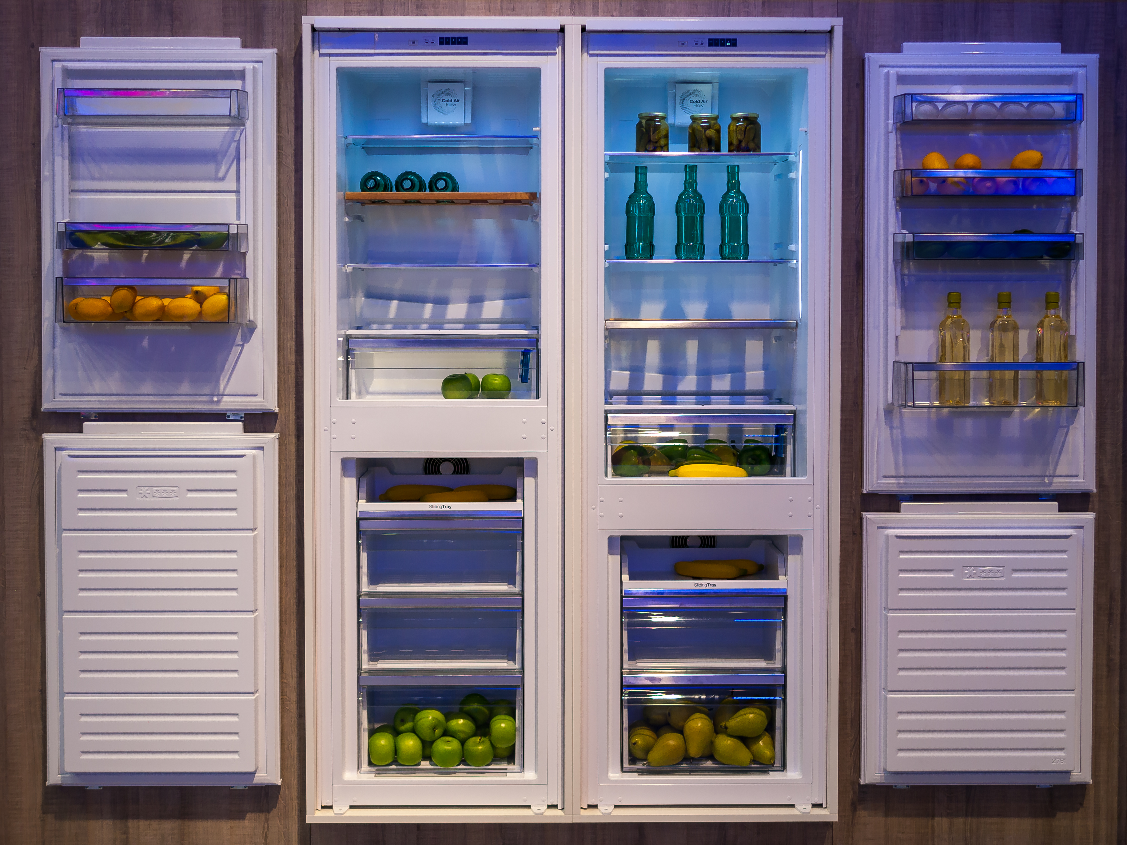 Vestel, Internationale Funkausstellung 2018, Berlin